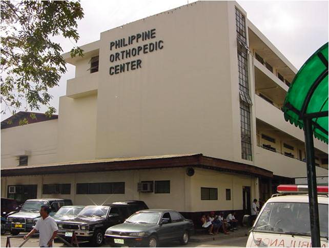 this is the facade of the Philippine Orthopedic Center in Banawe st. Quezon City